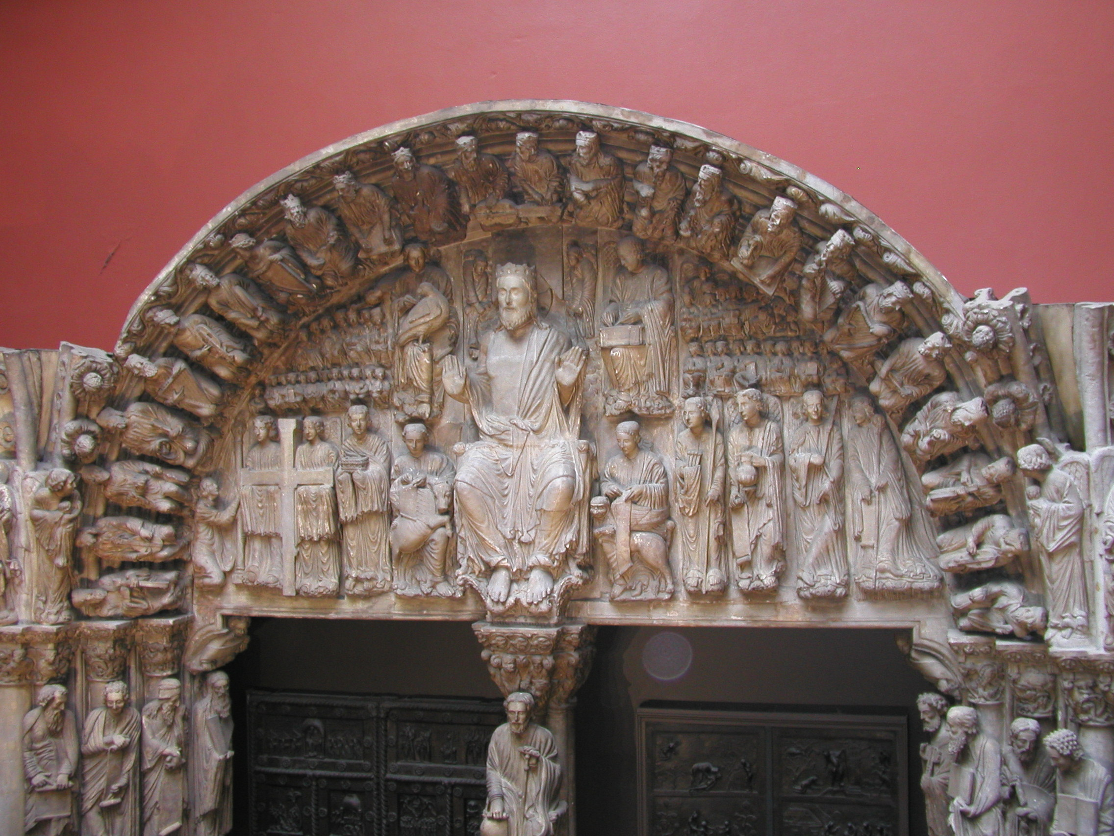 Victoria and Albert museum, London.